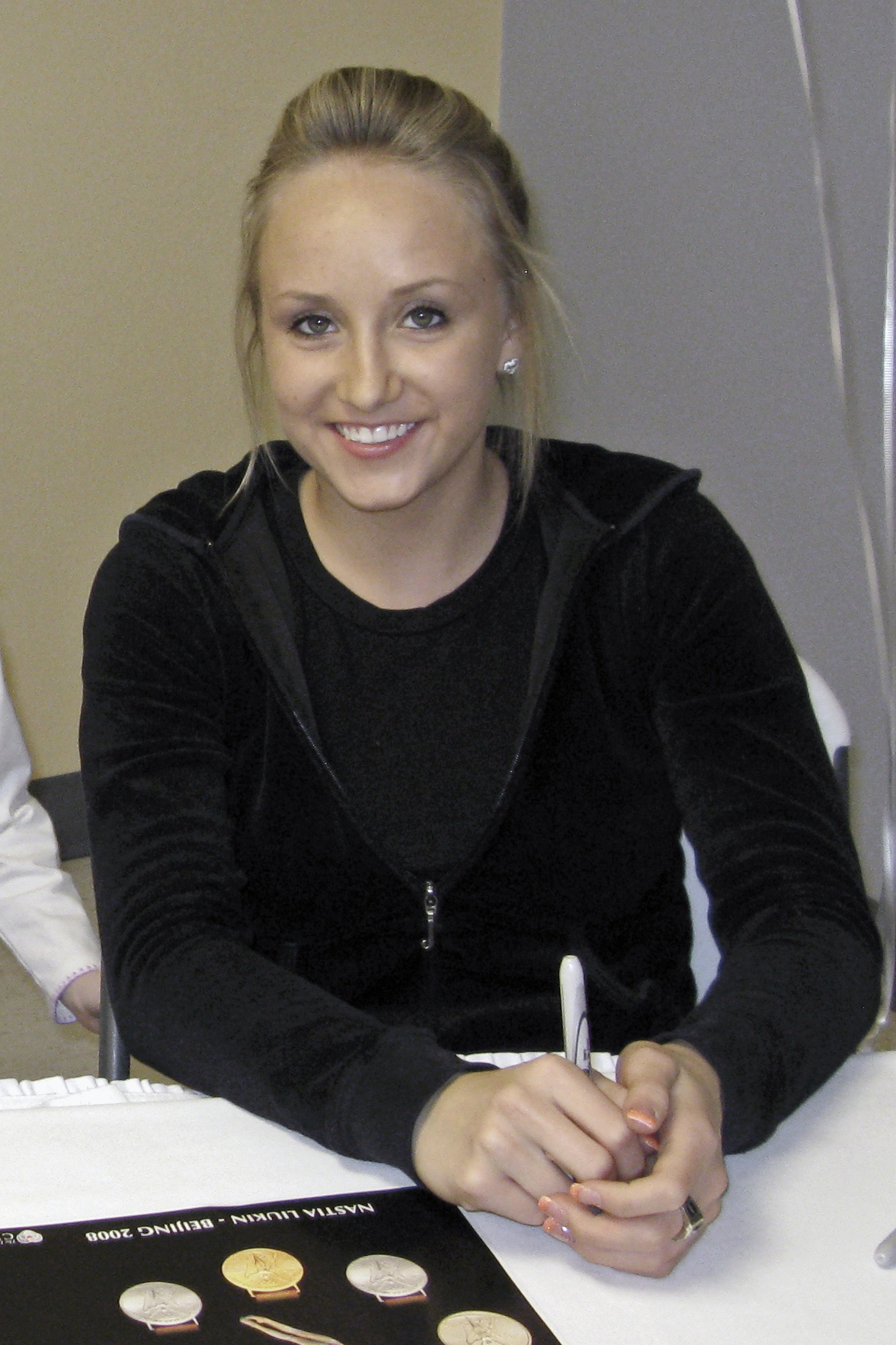 the Olympic Gold medalist, Nastia Liukin (Beijing 2008)